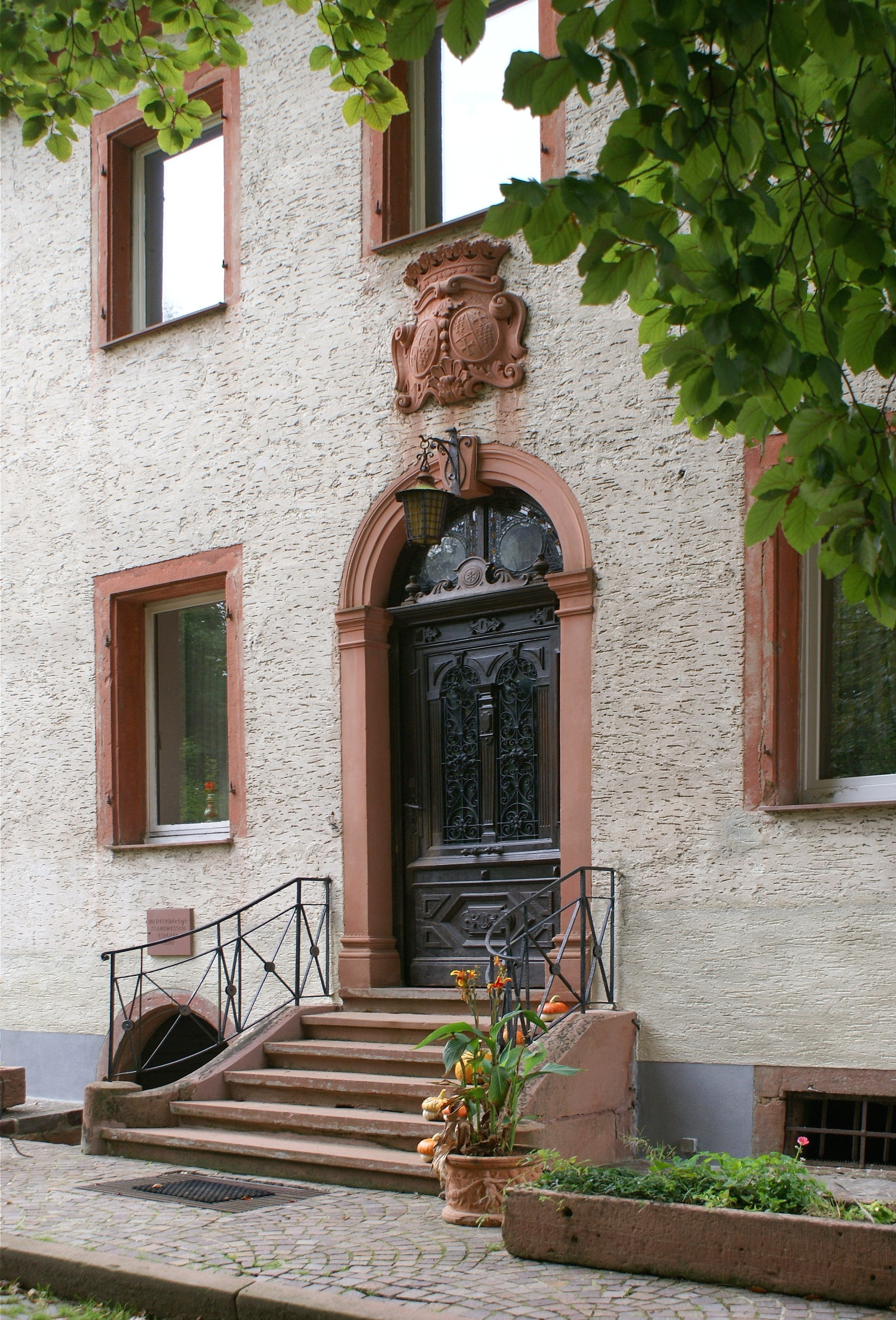 Portal of the former monastery Reuschberg